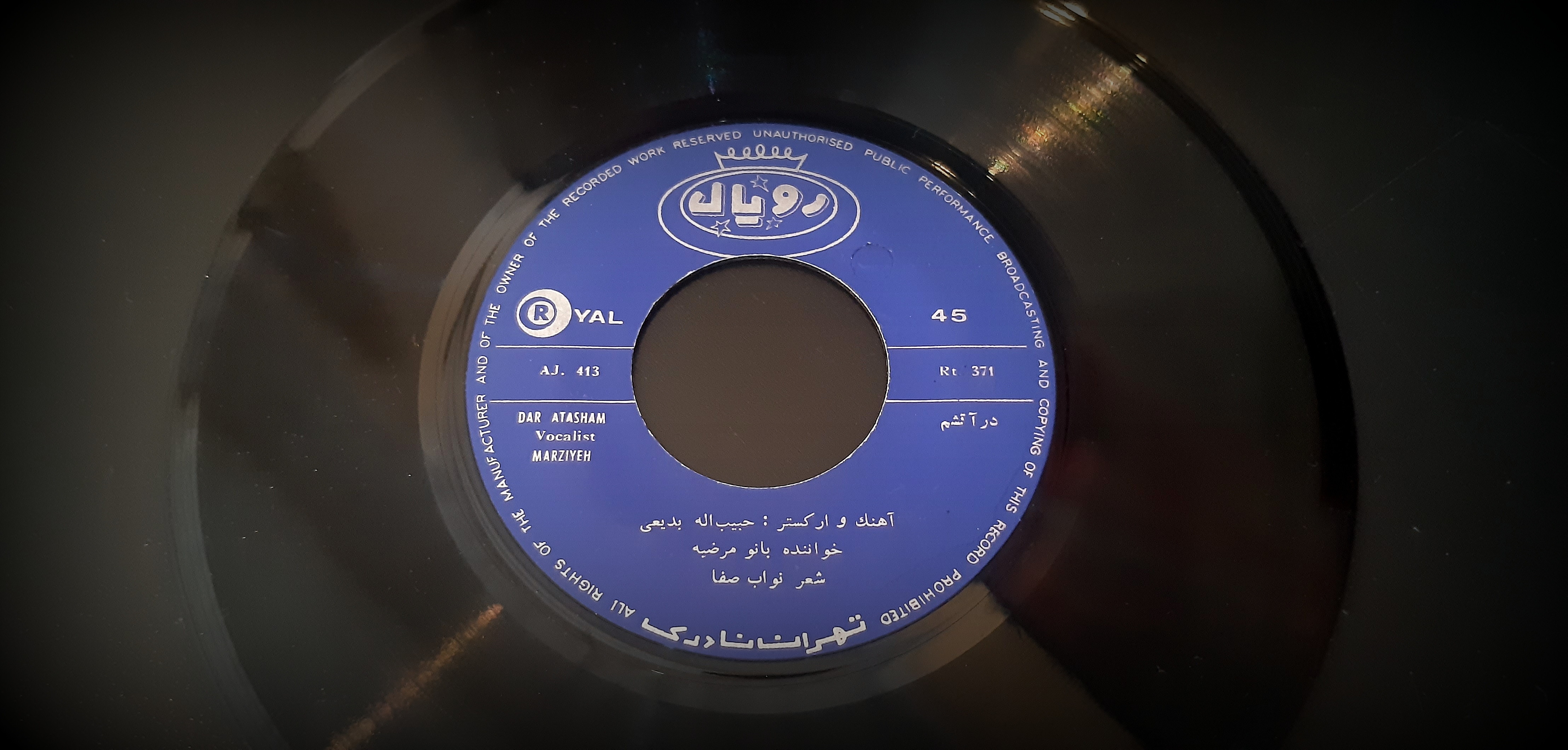 Persian music vinyl - Marzieh - Habibollah Badiee - Navab Safa - Tehran 1960s - Photo: Persian Dutch Network